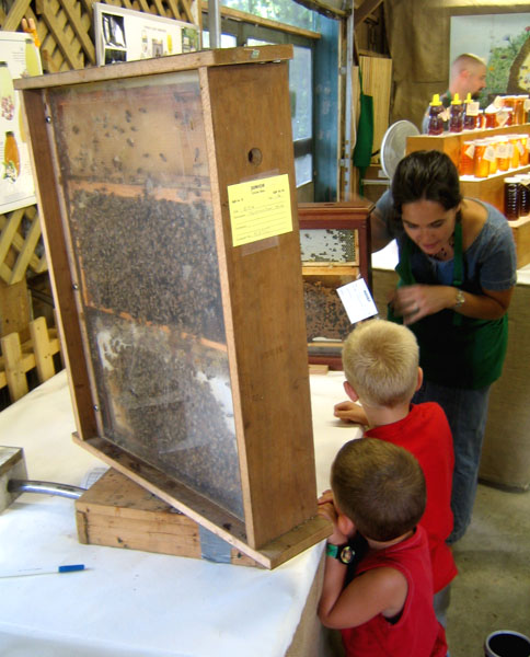 Originally posted here